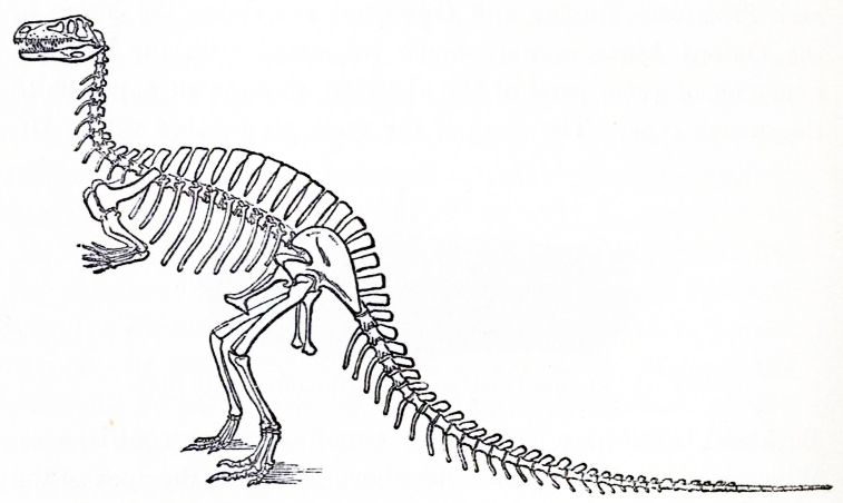 19th century skeletal restoration of Megalosaurus.